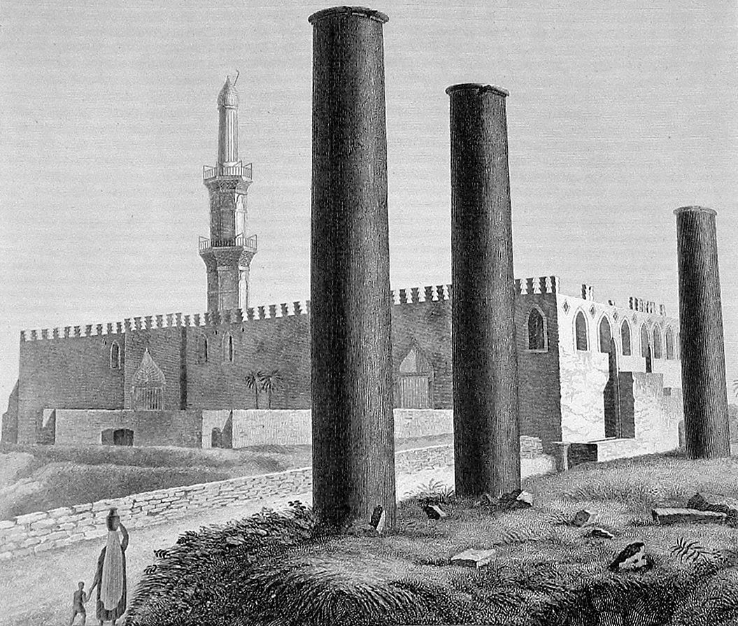 Alexandria old drawings